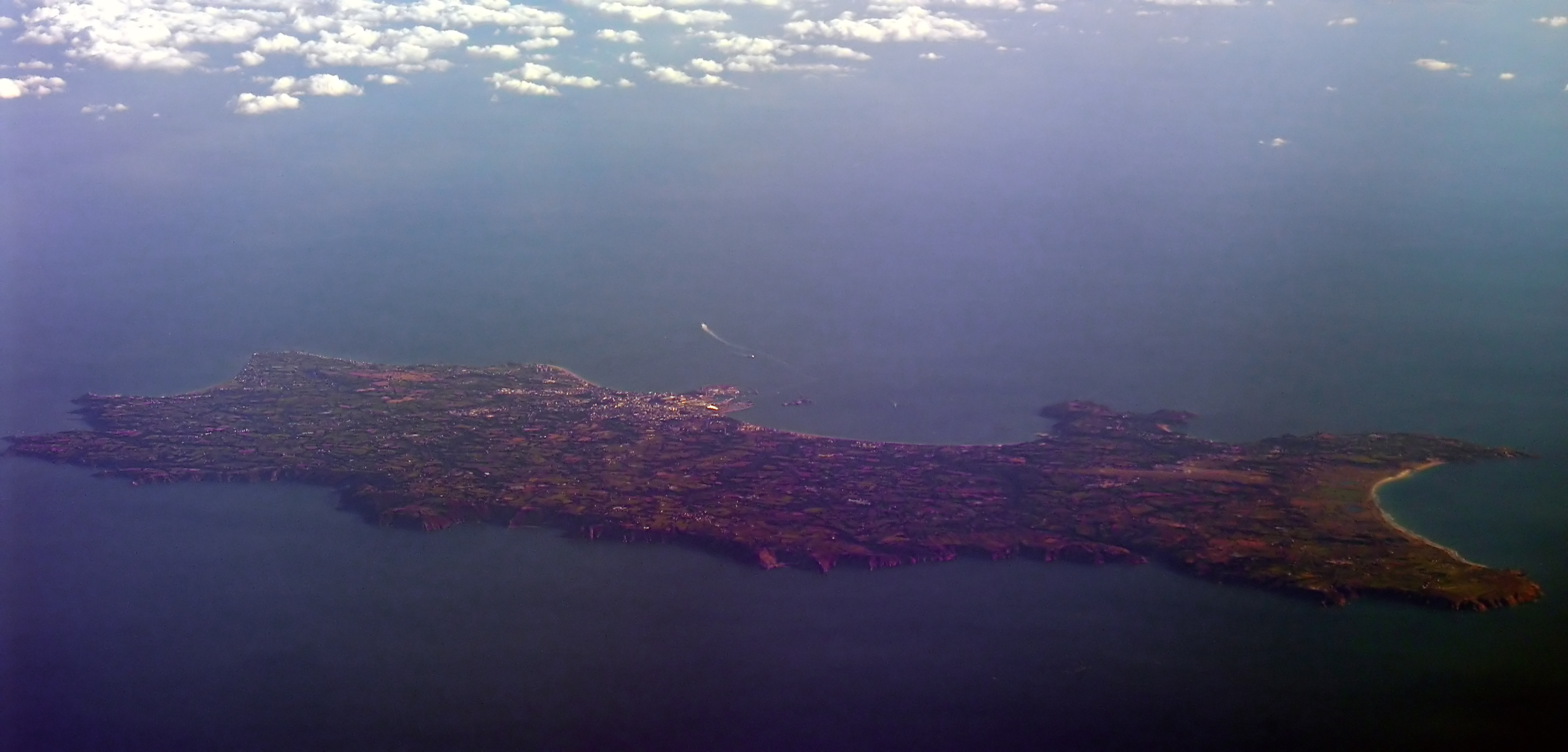 aerial view of Jersey (St Ouen's bay on the right)